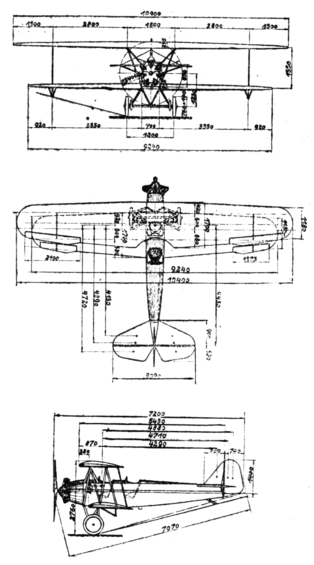 Raab-Katzenstein RK.2 Pelikan 3-view drawing from Le Document aéronautique January,1927